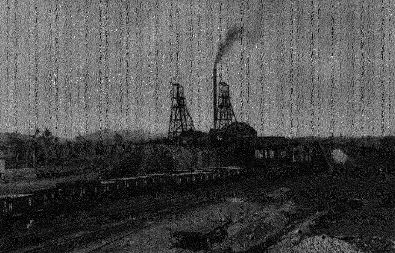 Strutt pit, yielding up to 1500 tons daily. Singareni coal field, Hyderabad state